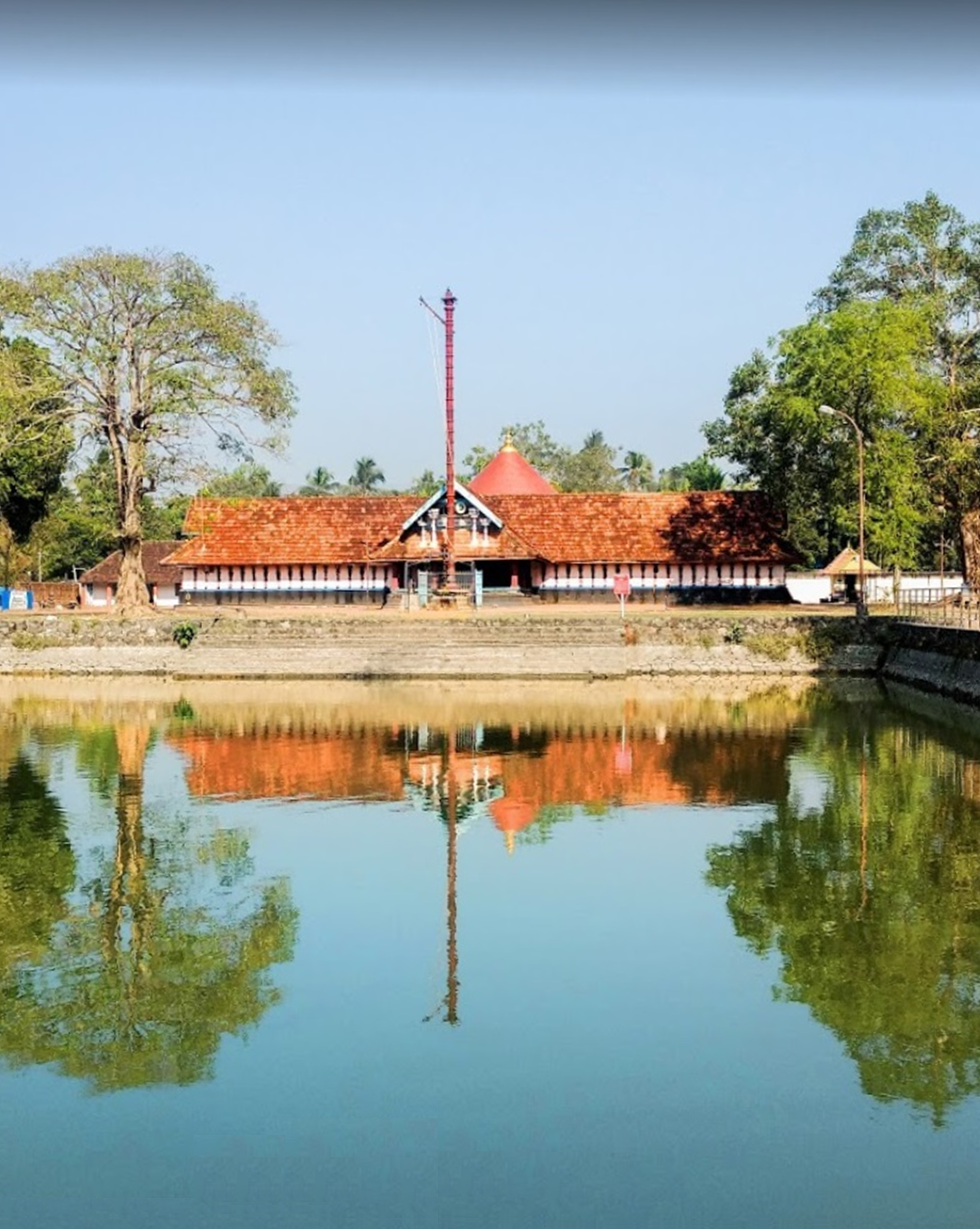 Thirunettur Temple Vytila, Ernakulam